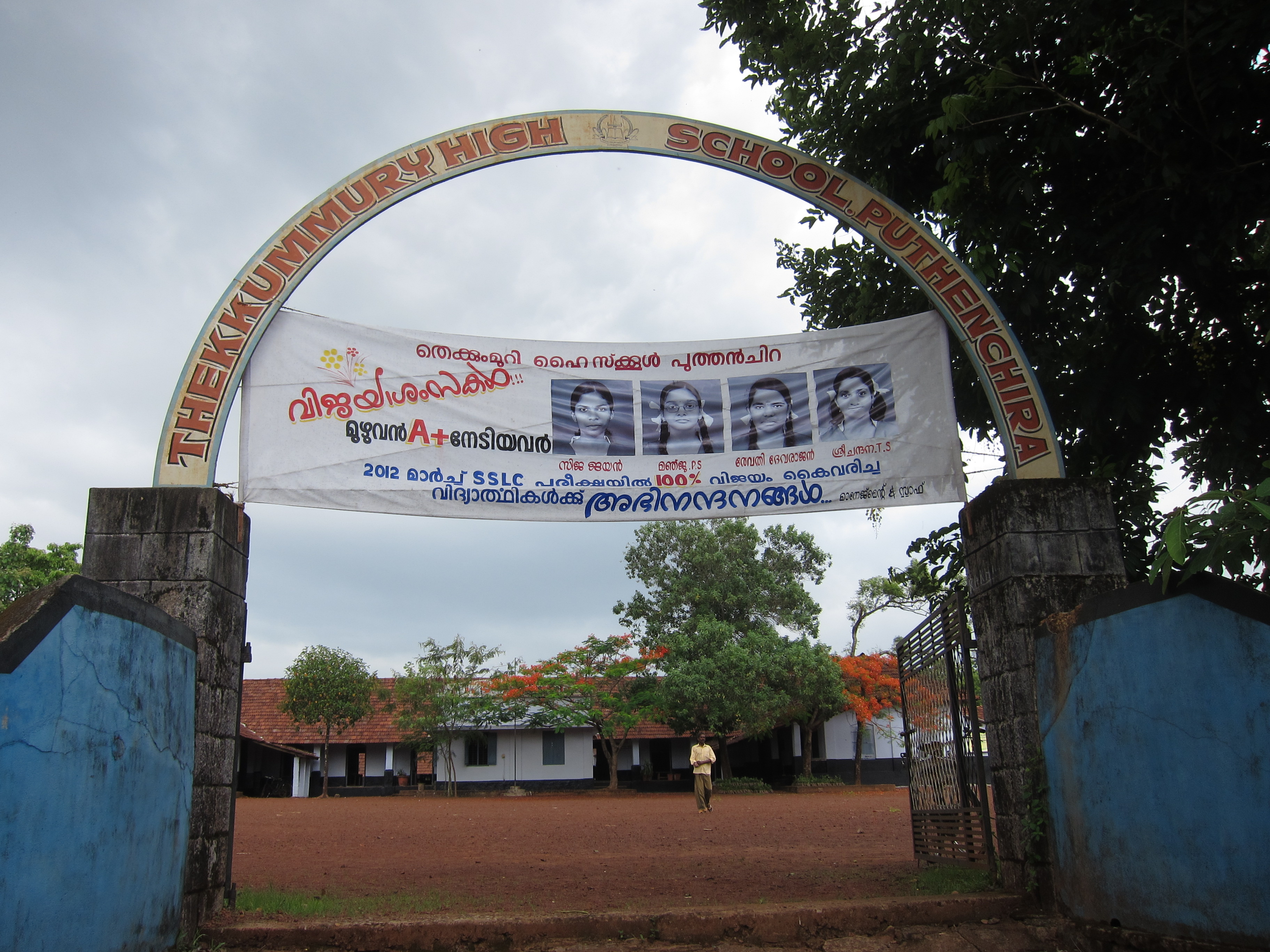 Puthenchira ( Velloor) Thekkumuzhi High School, Mala Educational Sub-District, Irinjalakuda Educational District, Thrissur District